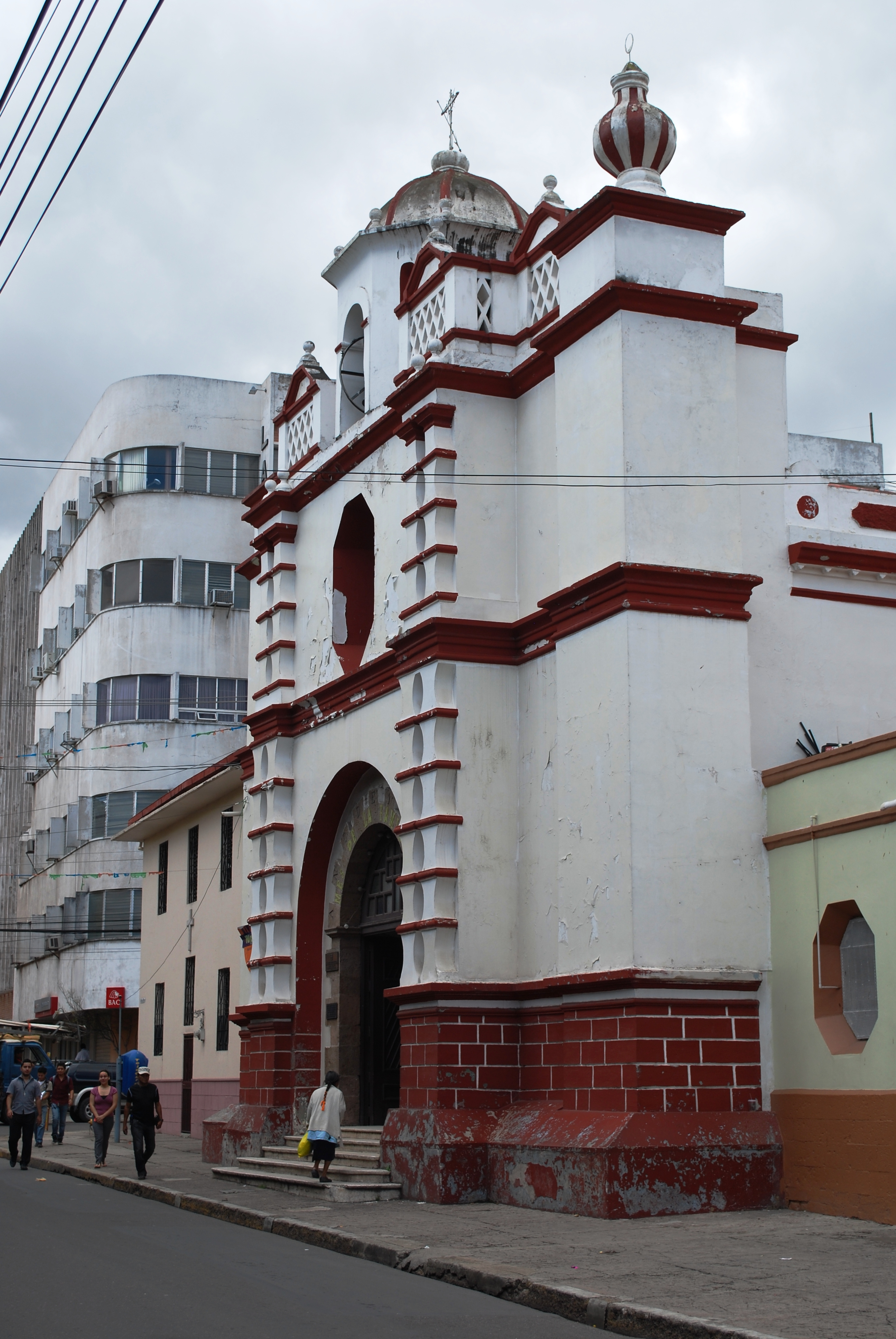 Inmaculada Concepcion church, and a Moderne style building behind it — in Comayaguela, Honduras